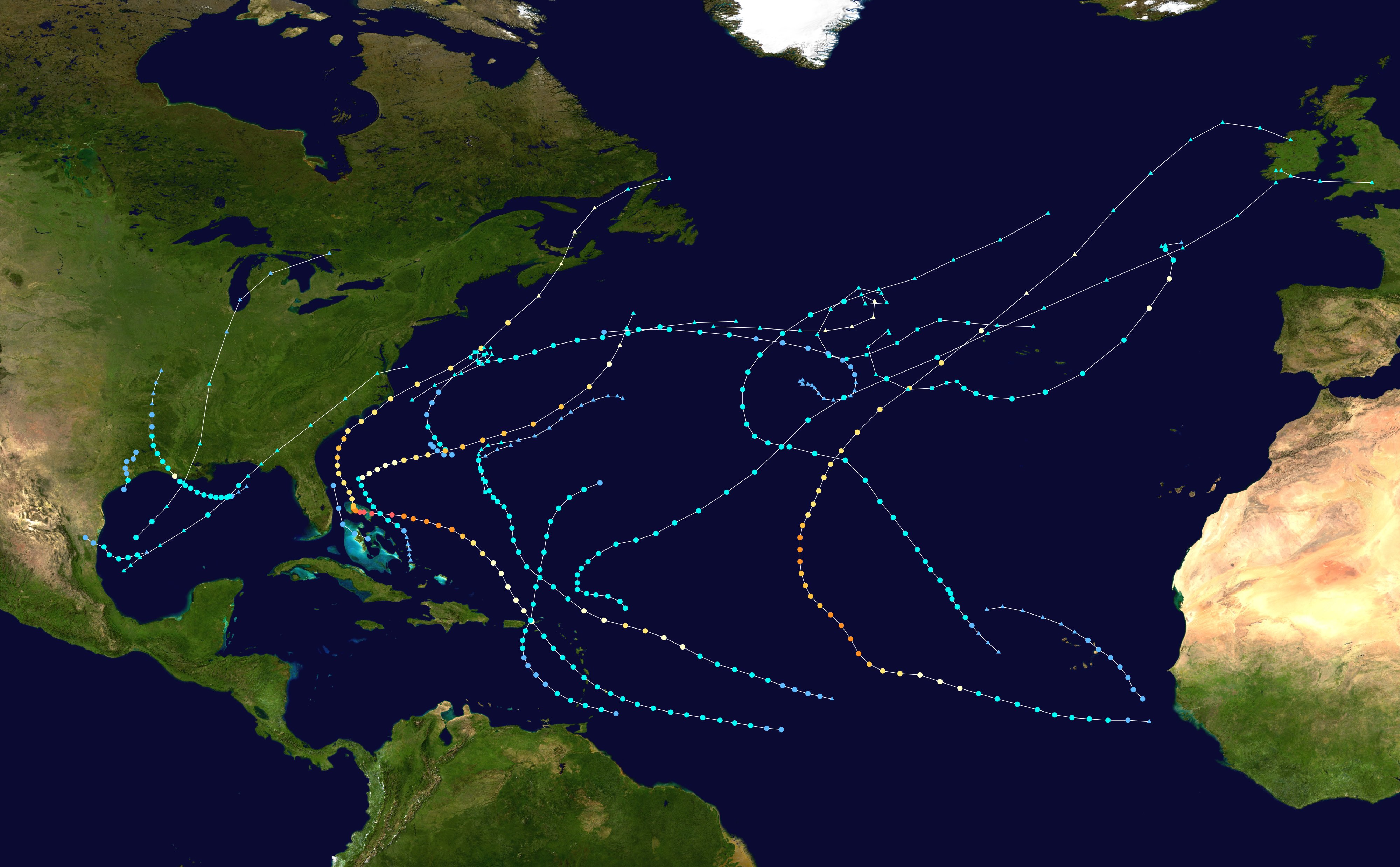 This map shows the tracks of all tropical cyclones in the 2019 Atlantic hurricane season. The points show the location of each storm at 6-hour intervals. The colour represents the storm's maximum sustained wind speeds as classified in the Saffir-Simpson Hurricane Scale (see below), and the shape of the data points represent the type of the storm. code= --res 4000 --dots 0.25 --lines 0.04 --xmin -105 --xmax 0 --ymin 0 --ymax 65 Saffir–Simpson scale Tropical depression≤38 mph≤62 km/h Category 3111–129 mph178–208 km/h Tropical storm39–73 mph63–118 km/h Category 4130–156 mph209–251 km/h Category 174–95 mph119–153 km/h Category 5≥157 mph≥252 km/h Category 296–110 mph154–177 km/h Unknown Storm type Tropical cyclone Subtropical cyclone Extratropical cyclone / Remnant low / Tropical disturbance / Monsoon depression